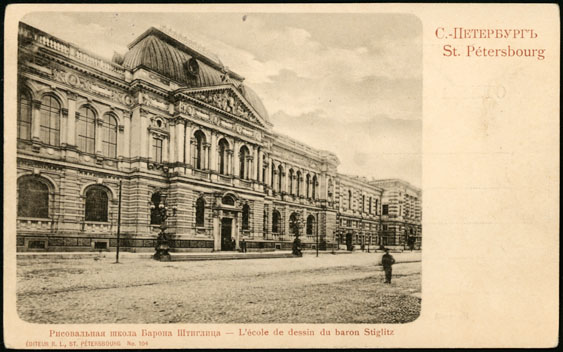 Saint Petersburg (Russia), Saint Petersburg Art and Industry Academy.